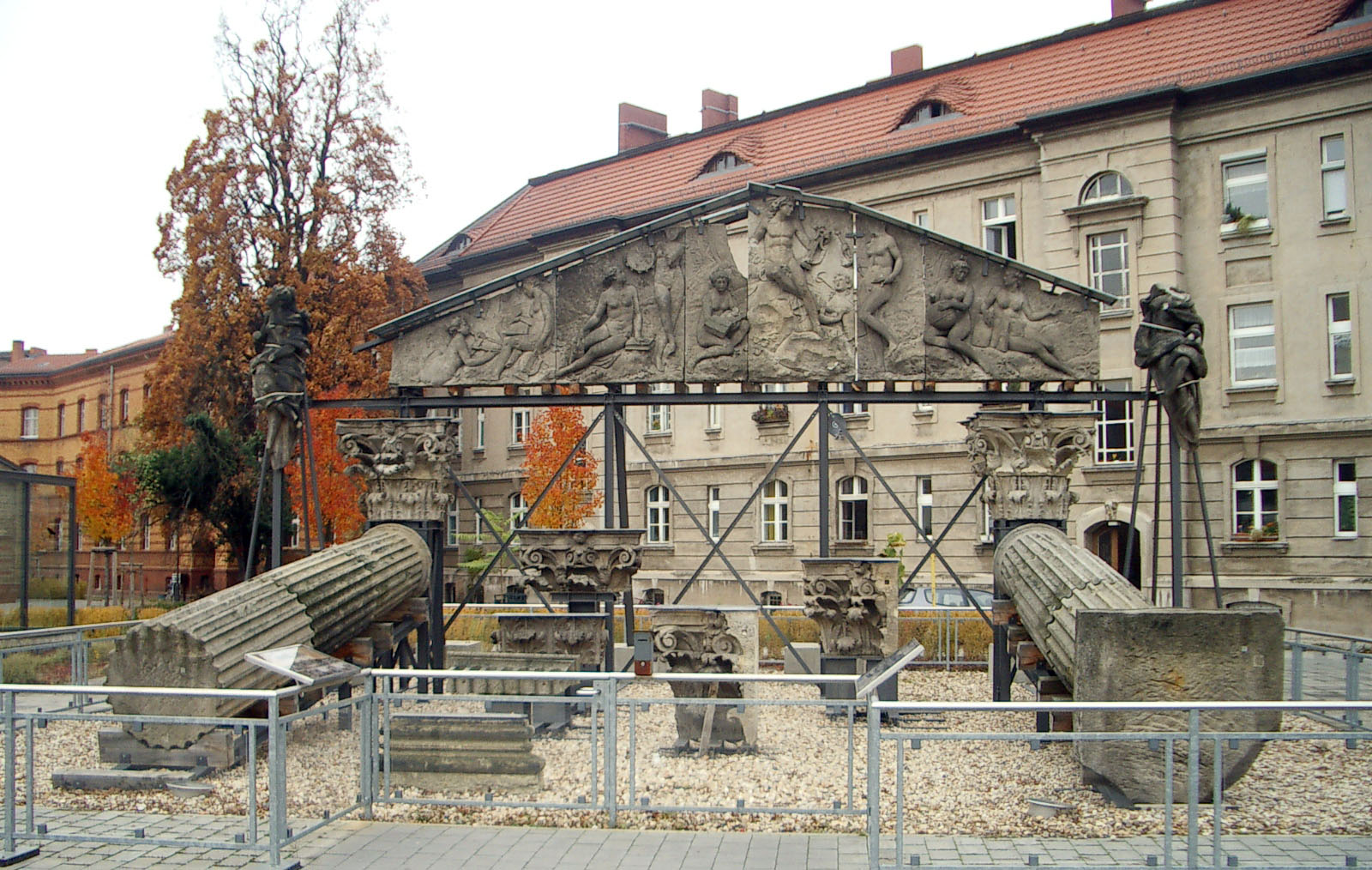 The remains of the facade of the City Palace of Potsdam, Germany.